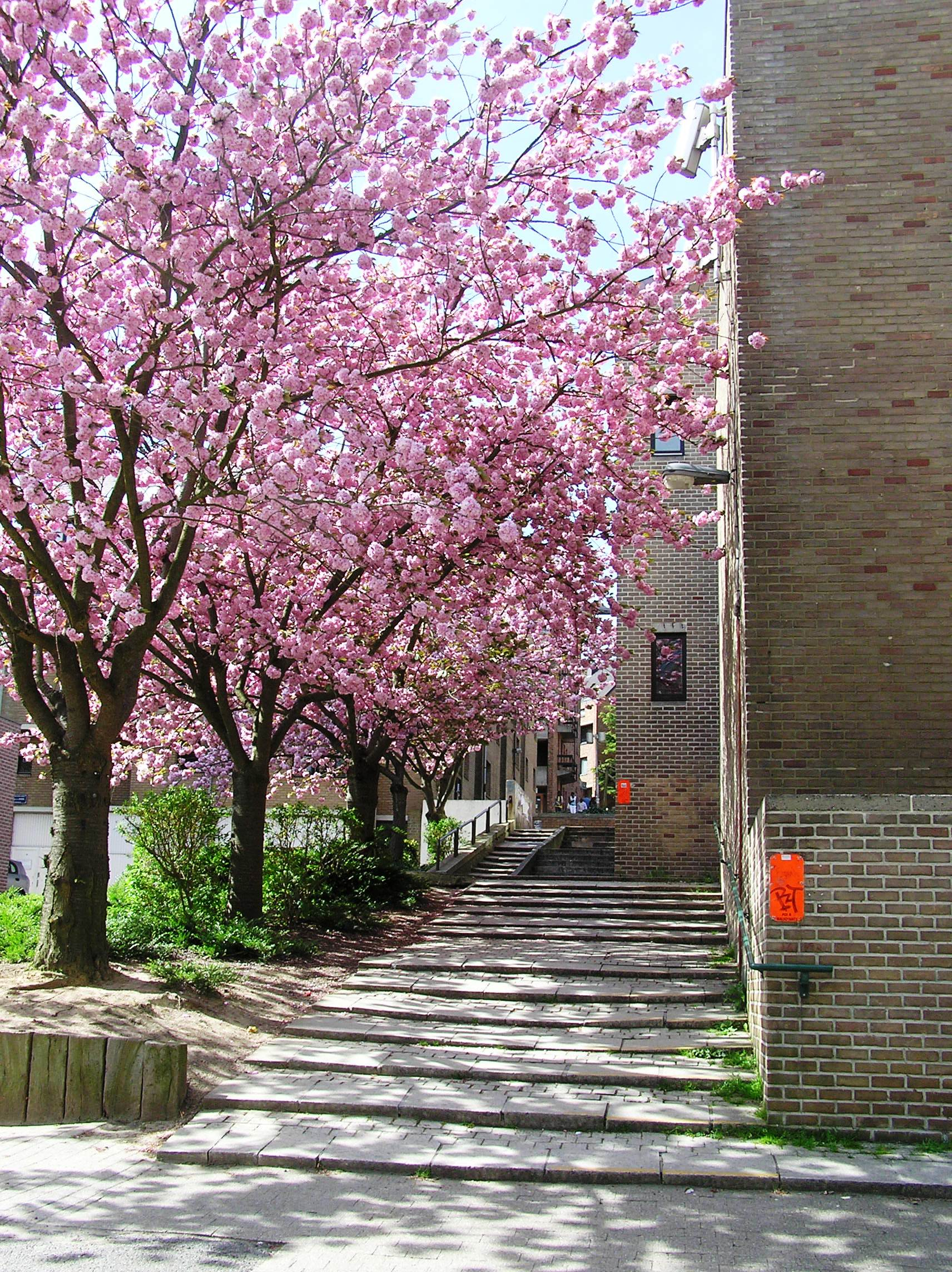 Stairs leading to the quarter Hocaille of Louvain-la-Neuve